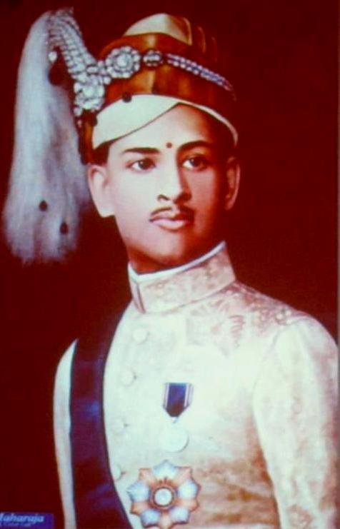 The photo of the late King of Travancore Sree Chithira Thirunal.